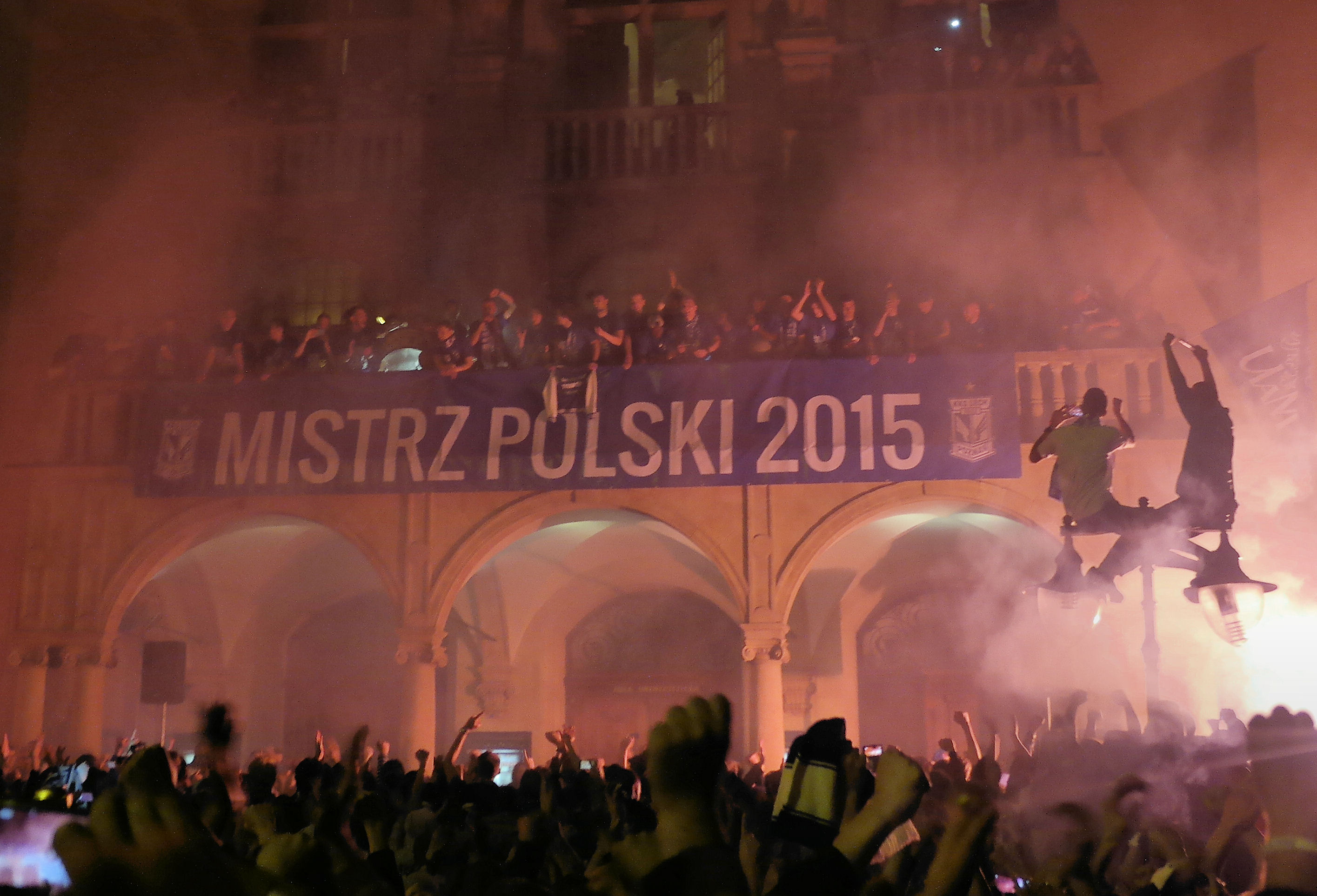 Football team Lech Poznań wins the league and will play in qualifing round of the Chanmpions League, Poznań, Polska.